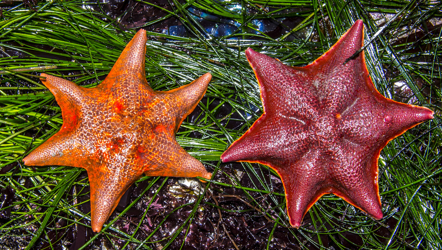 Unusual there were so many 6 armed Bat Stars.